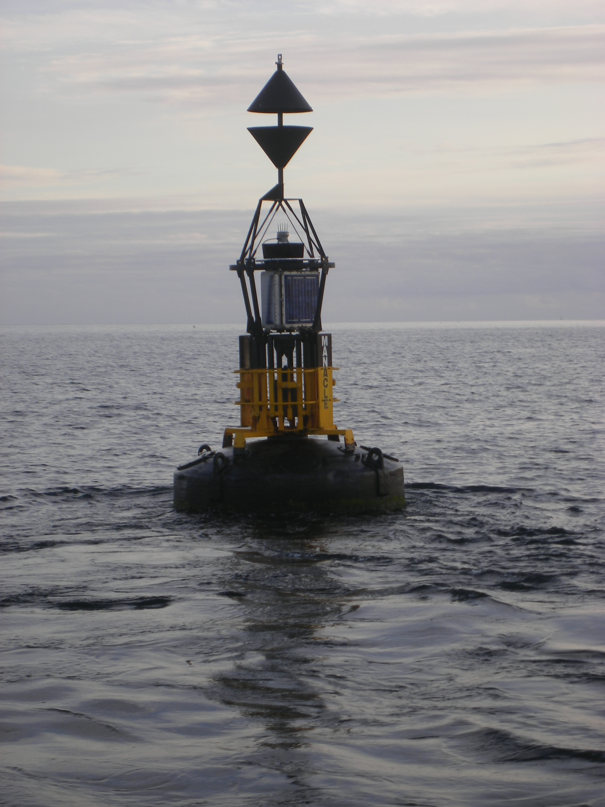 Cardinale Est "Manacle" (Falmouth,_GB)